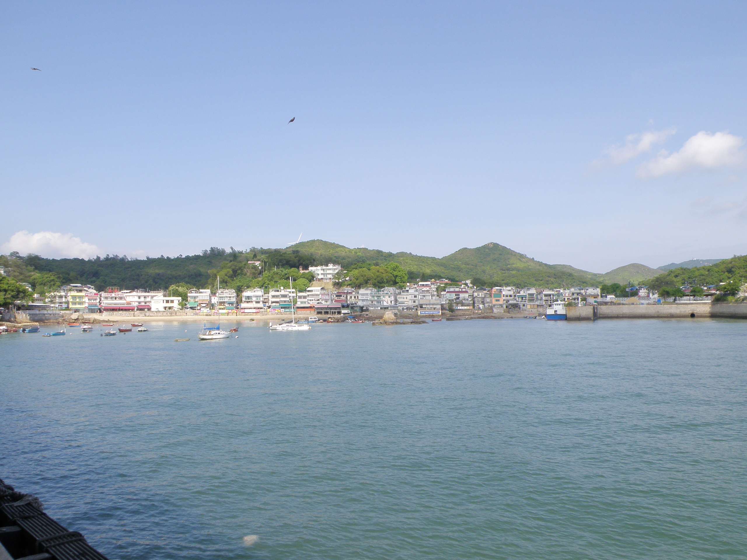 Yung Shue Wan in Lamma Island, Hong Kong.